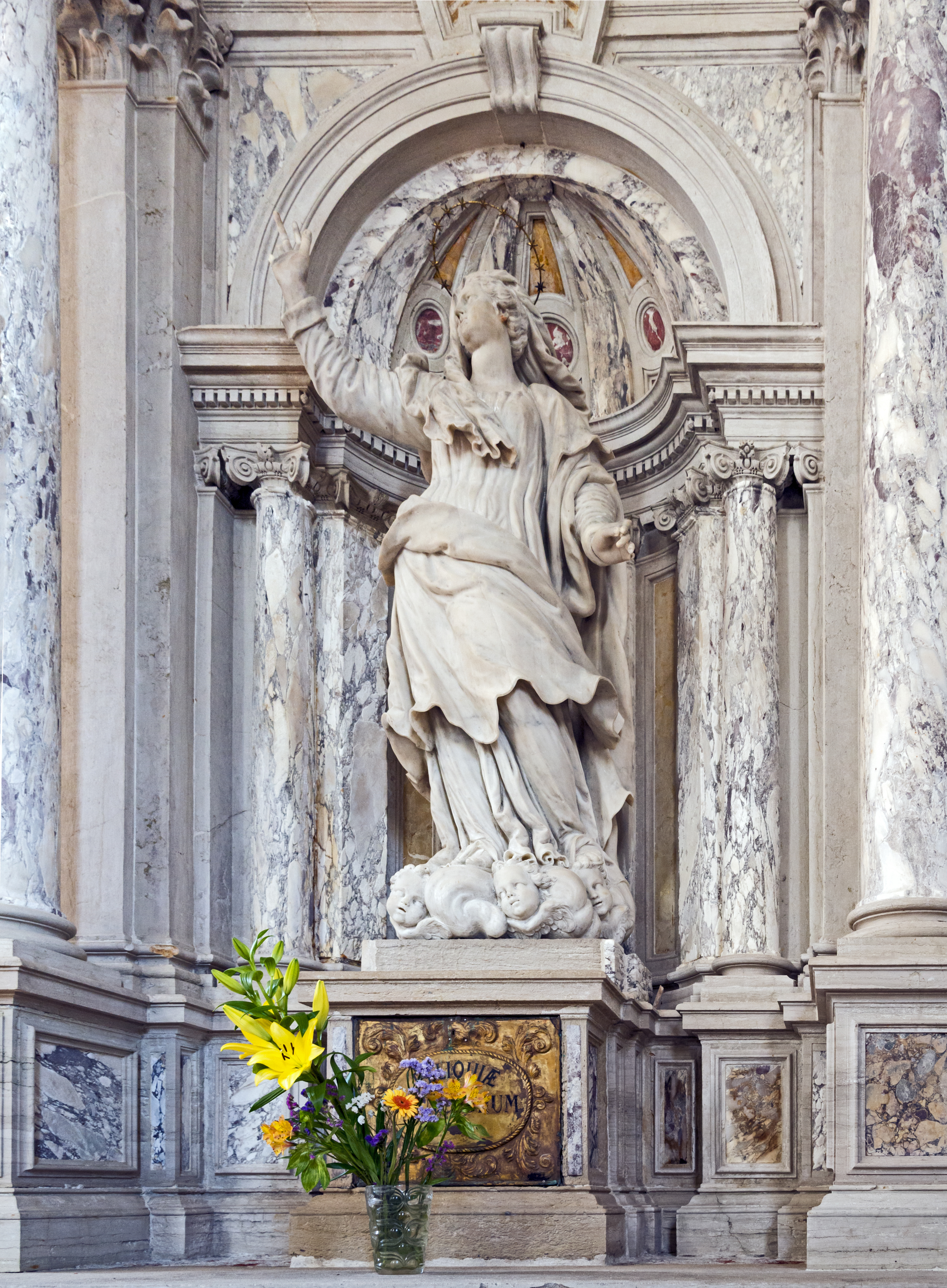 Sant'Andrea della Zirada in Venice. Right side, second altar, marble statue of St. Mary of Cleophas (eighteenth century)